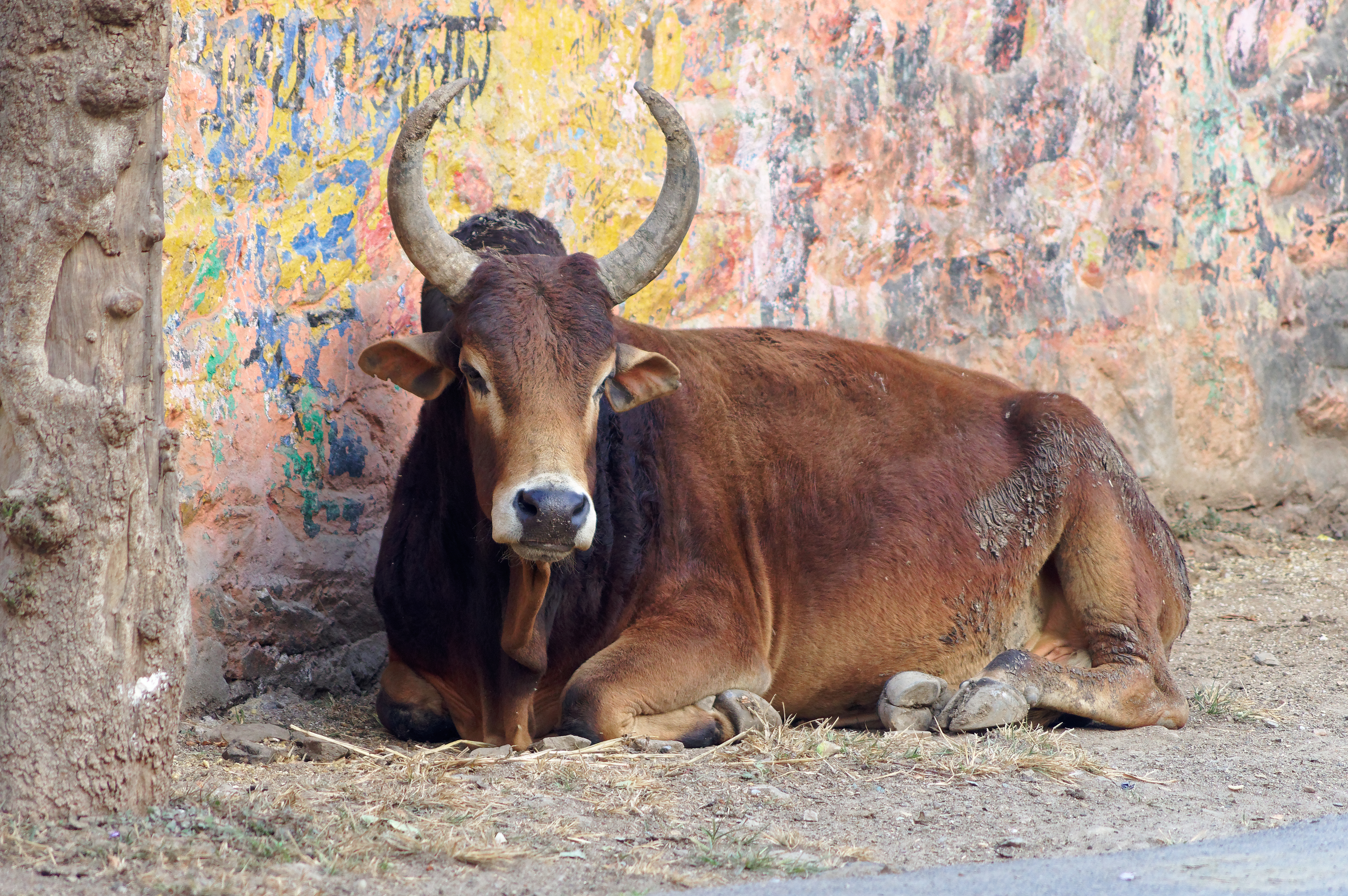 A cow on a street of Udaipur, India